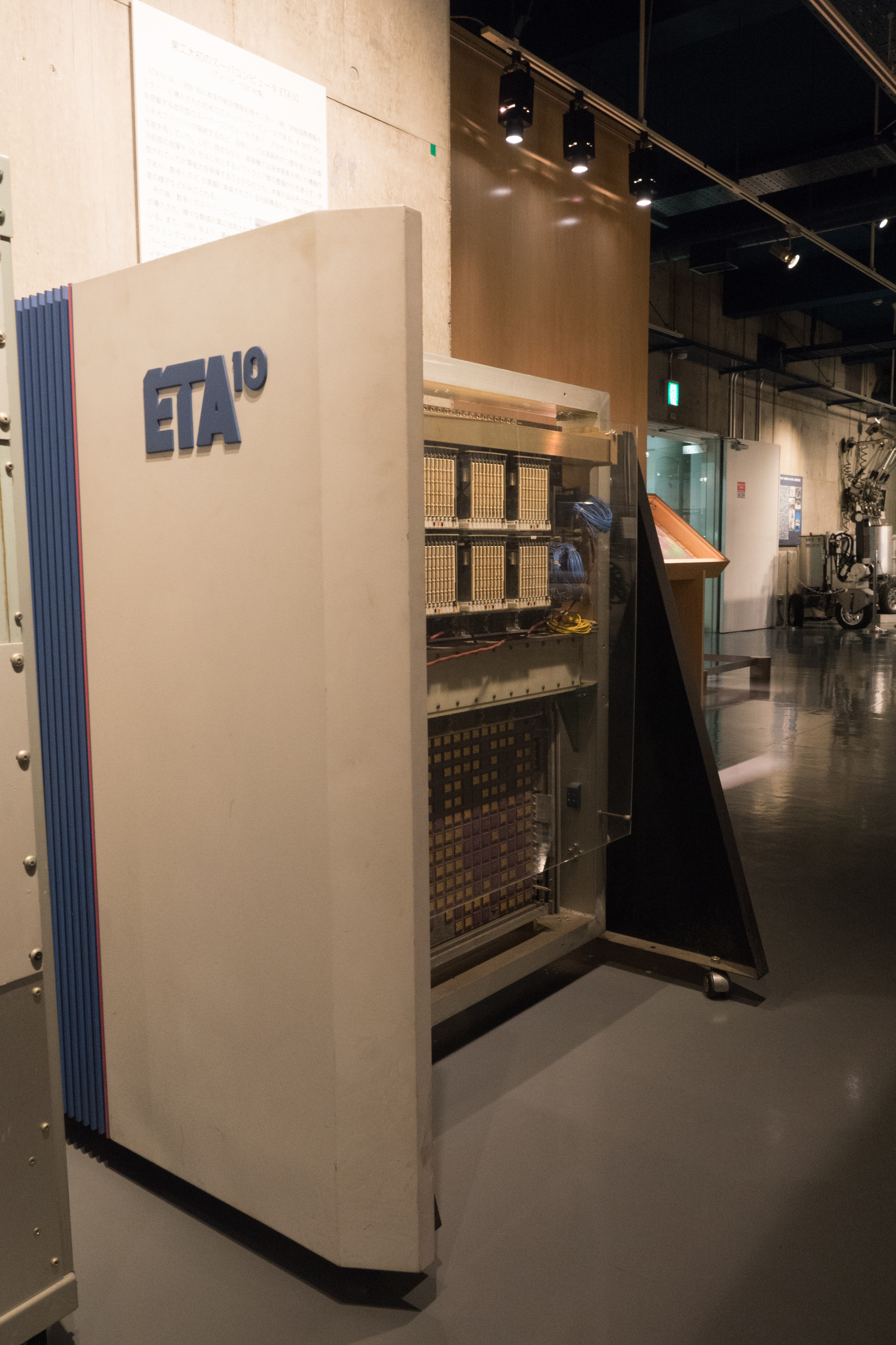 ETA10 logo and body